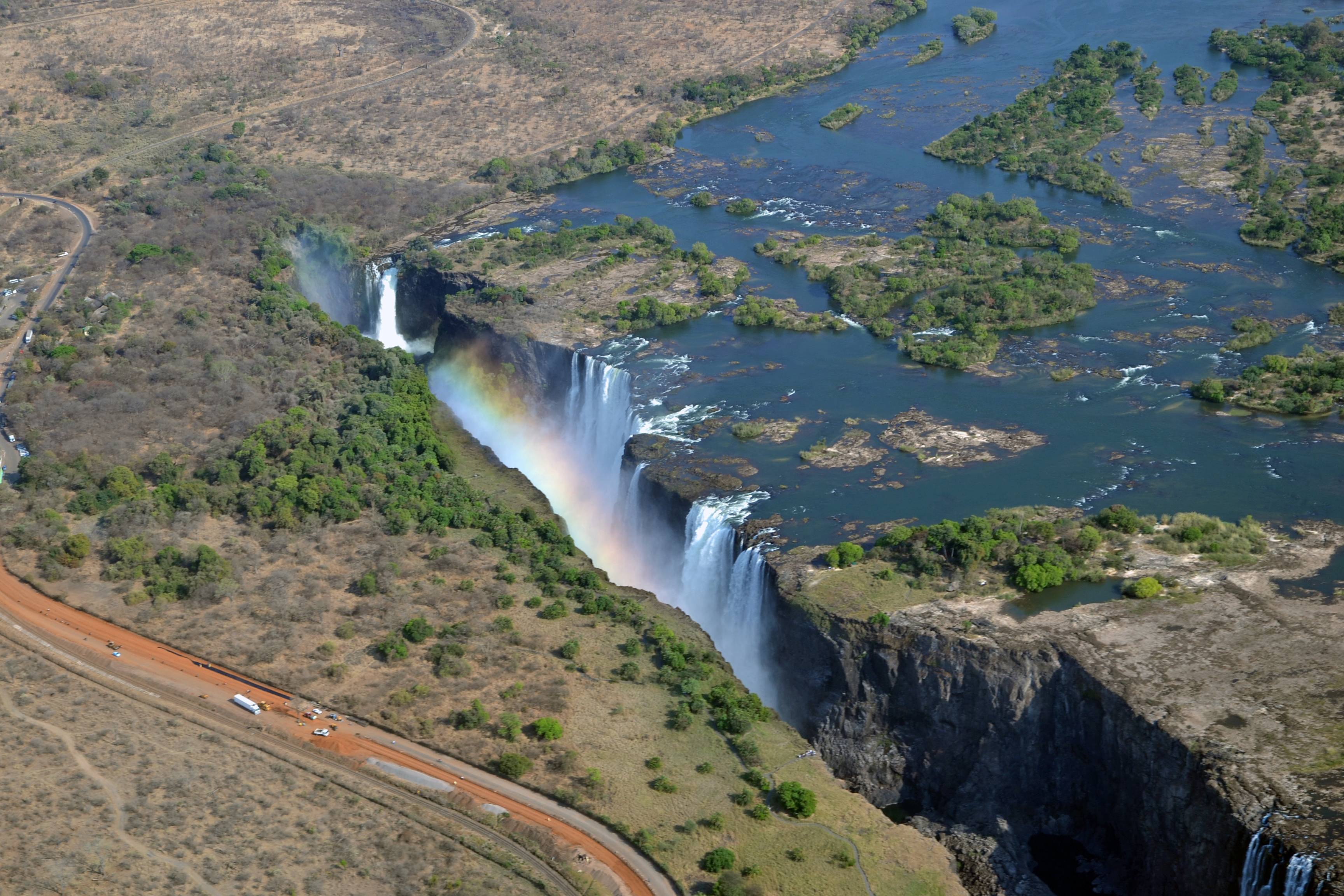 View of Victoria Falls during the dry season from a helicopter on September 2012.